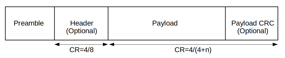 LoRa PHY format frame